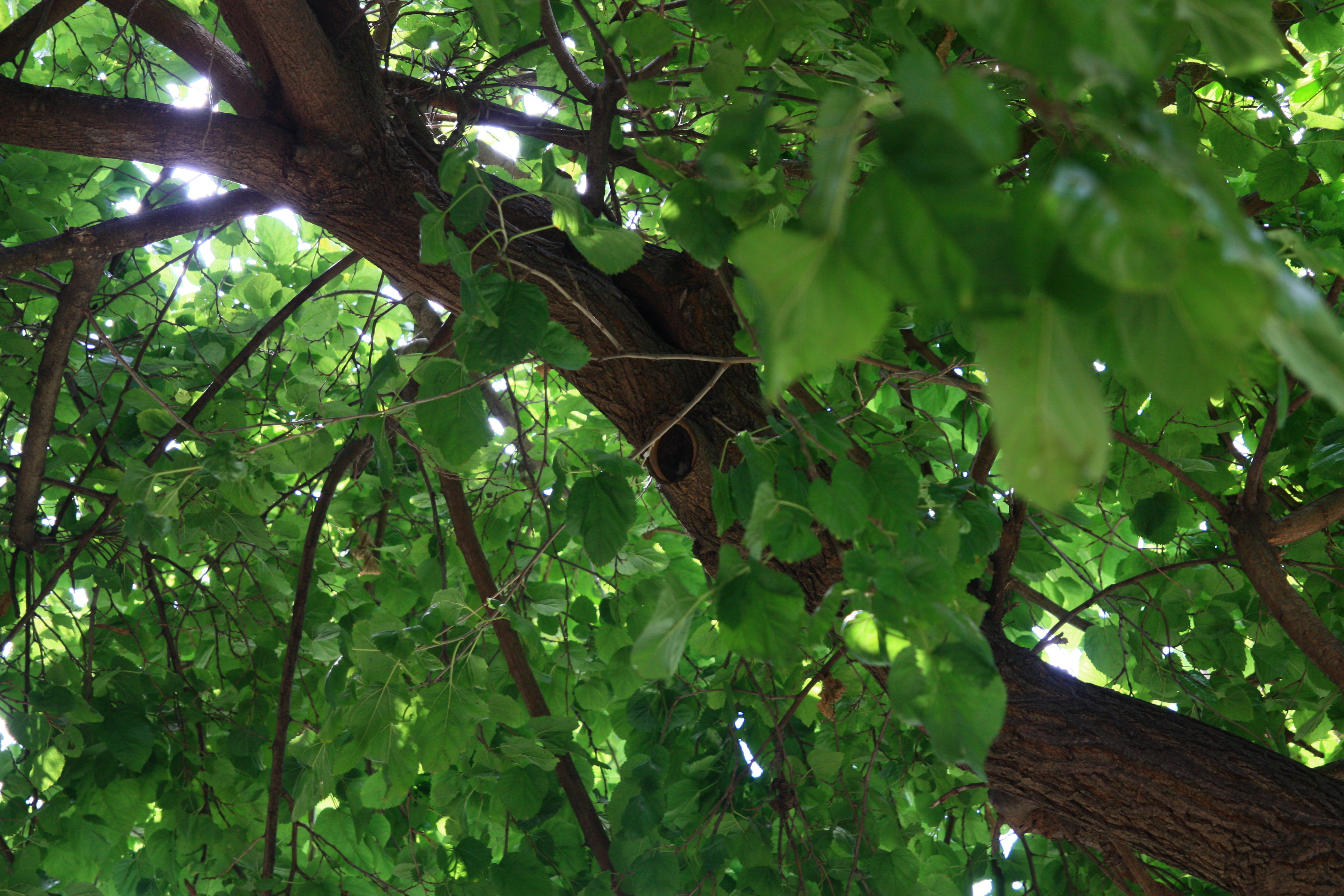 Savyon Israel